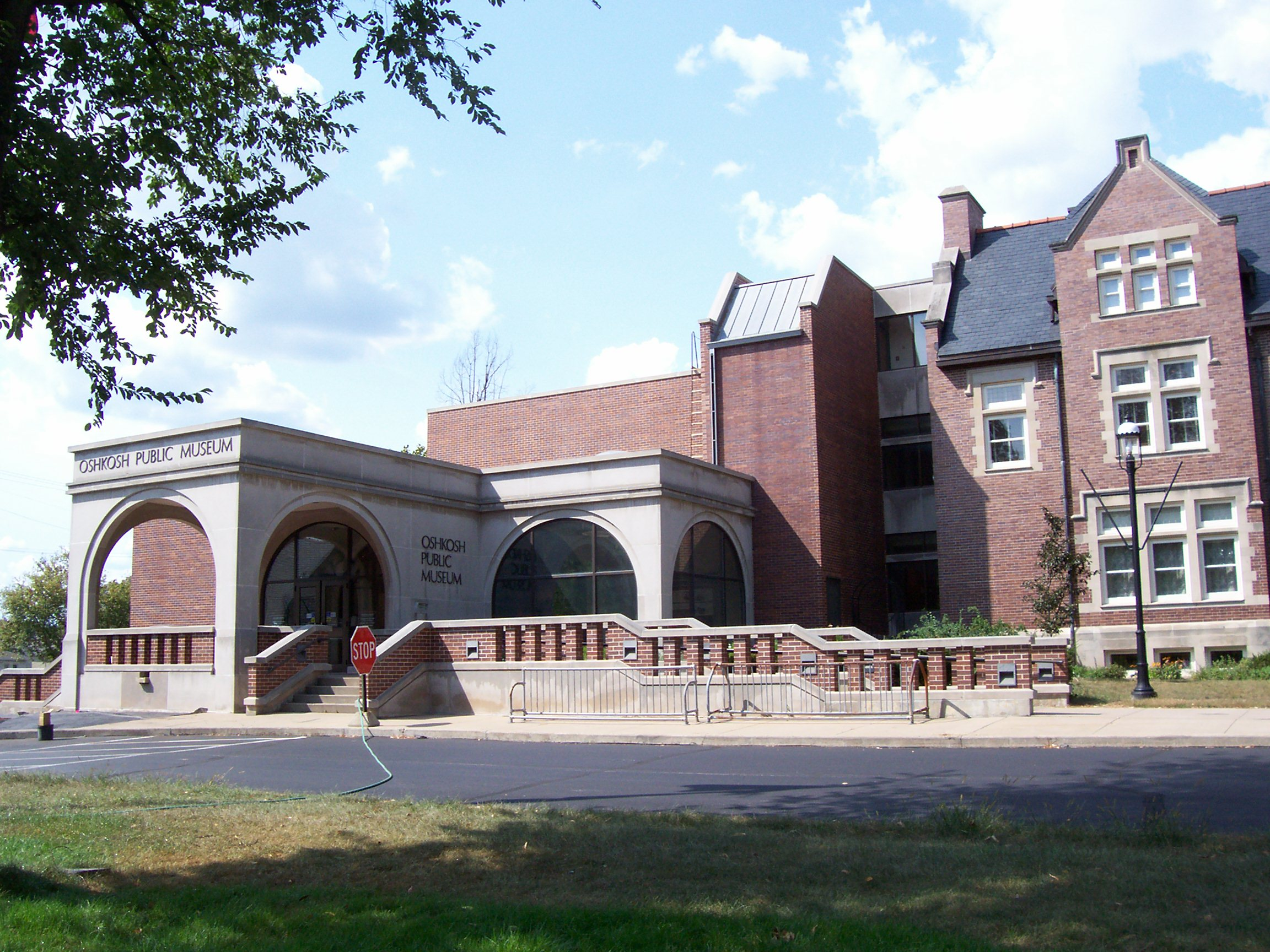 A picture of the Oshkosh Public Museum in Oshkosh, Wisconsin. The house portion of the museum is listed on the National Register of Historic Places. This image was taken September 7, 2006 by User:Royalbroil